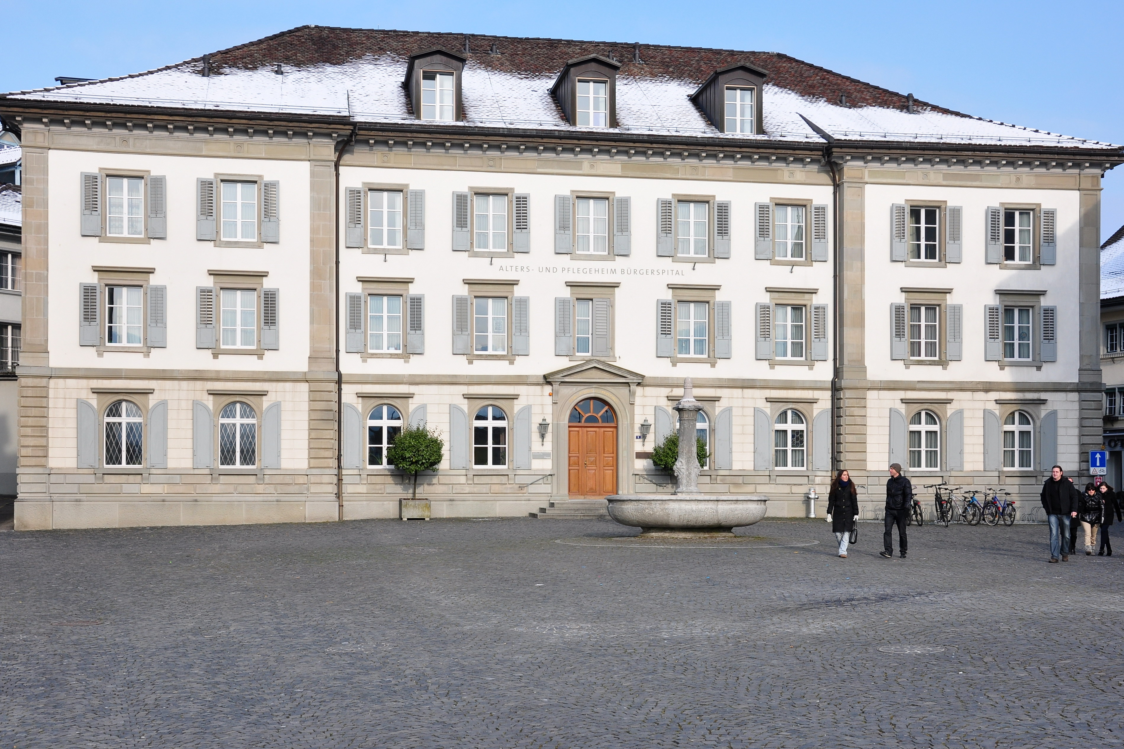 Rapperswil (SG) : The former Heiliggeist-Spital (1845, first mentioned in 13th century) at Fischmarktplatz.